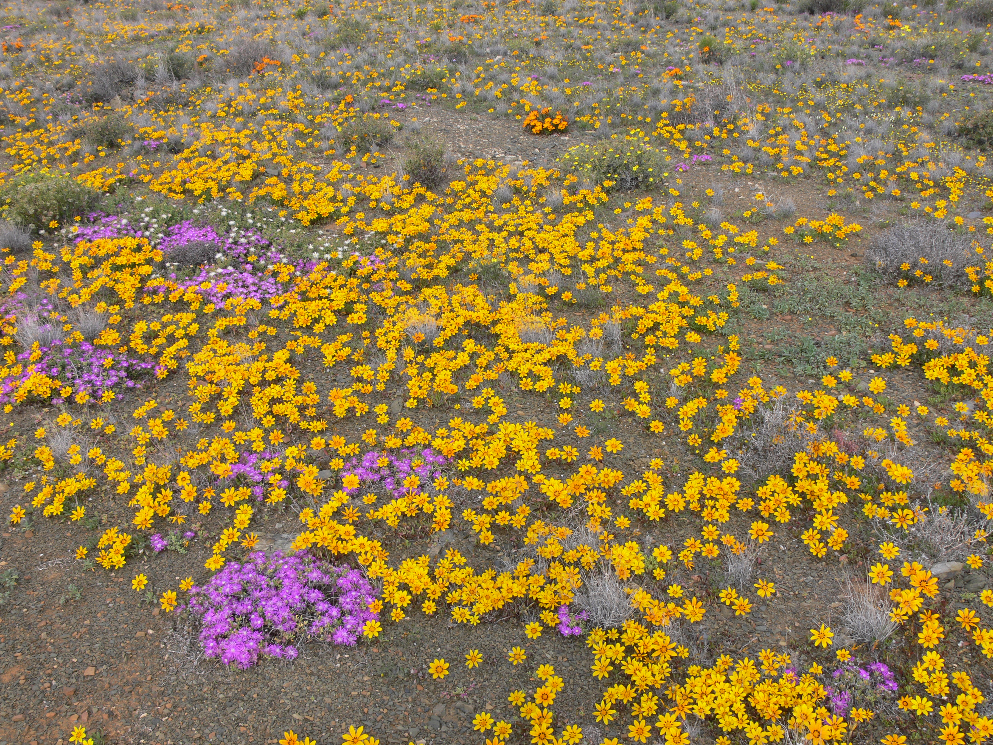 flowering Karoo, near the Highway N1 between Laingsburg and Prince Albert Road Western Cape, South Africa